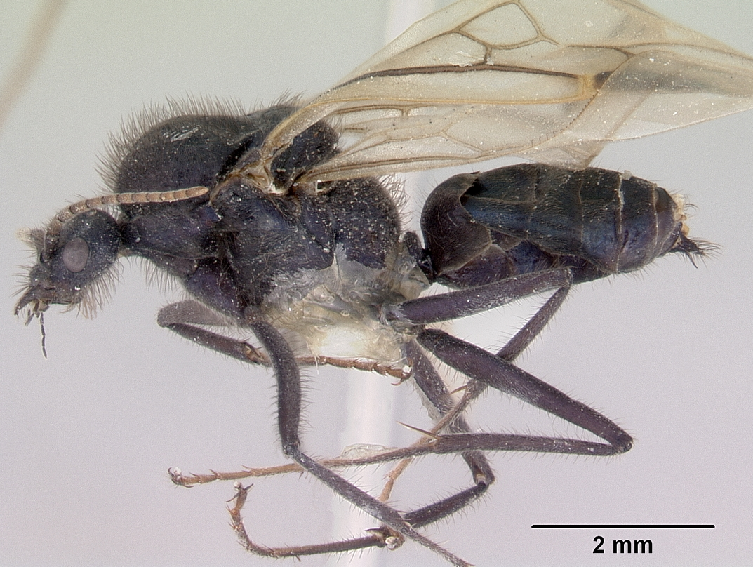 Profile view of ant Iridomyrmex greensladei specimen casent0172040.